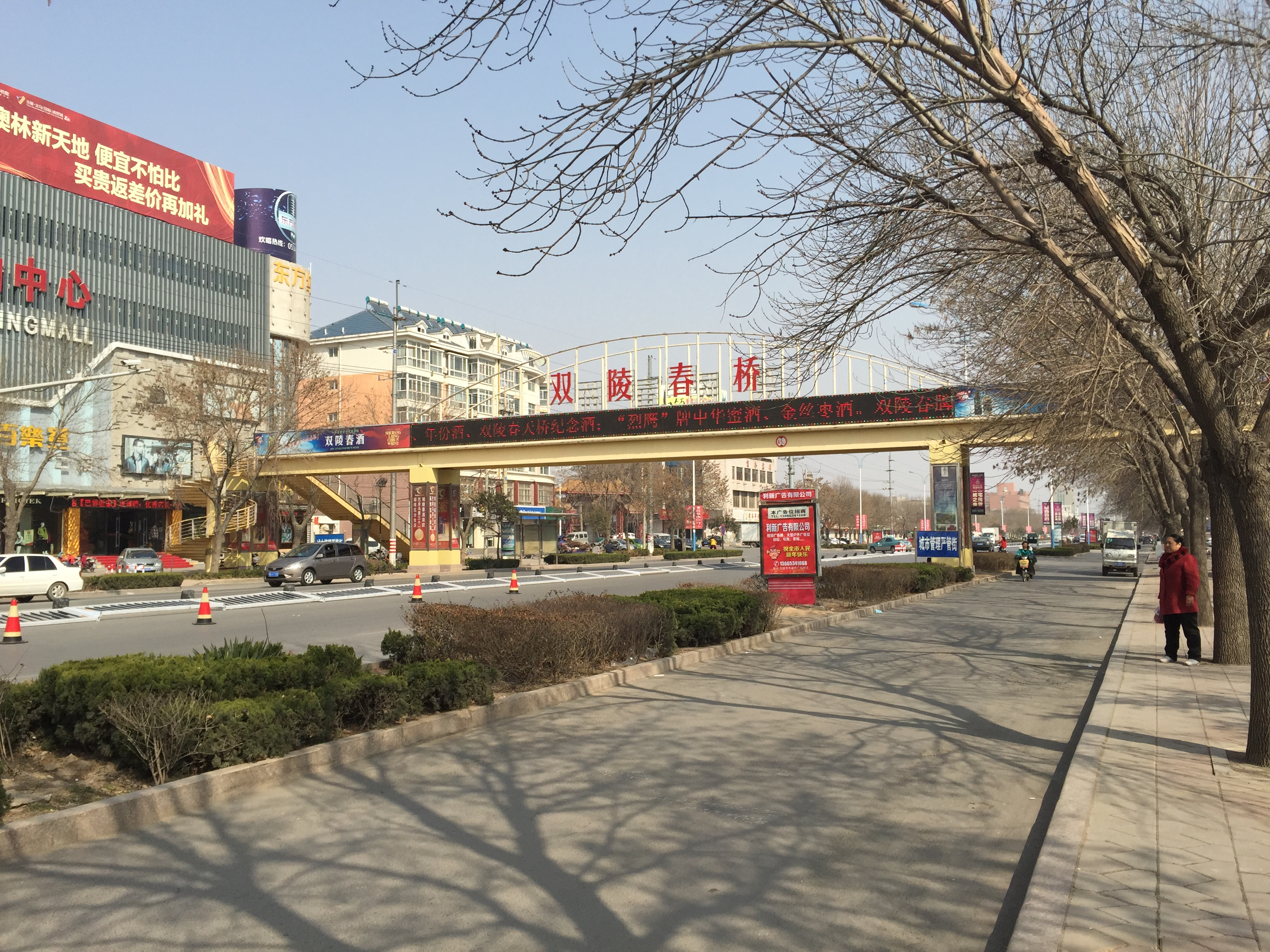 Street of Leling, Dezhou ,Shandong.